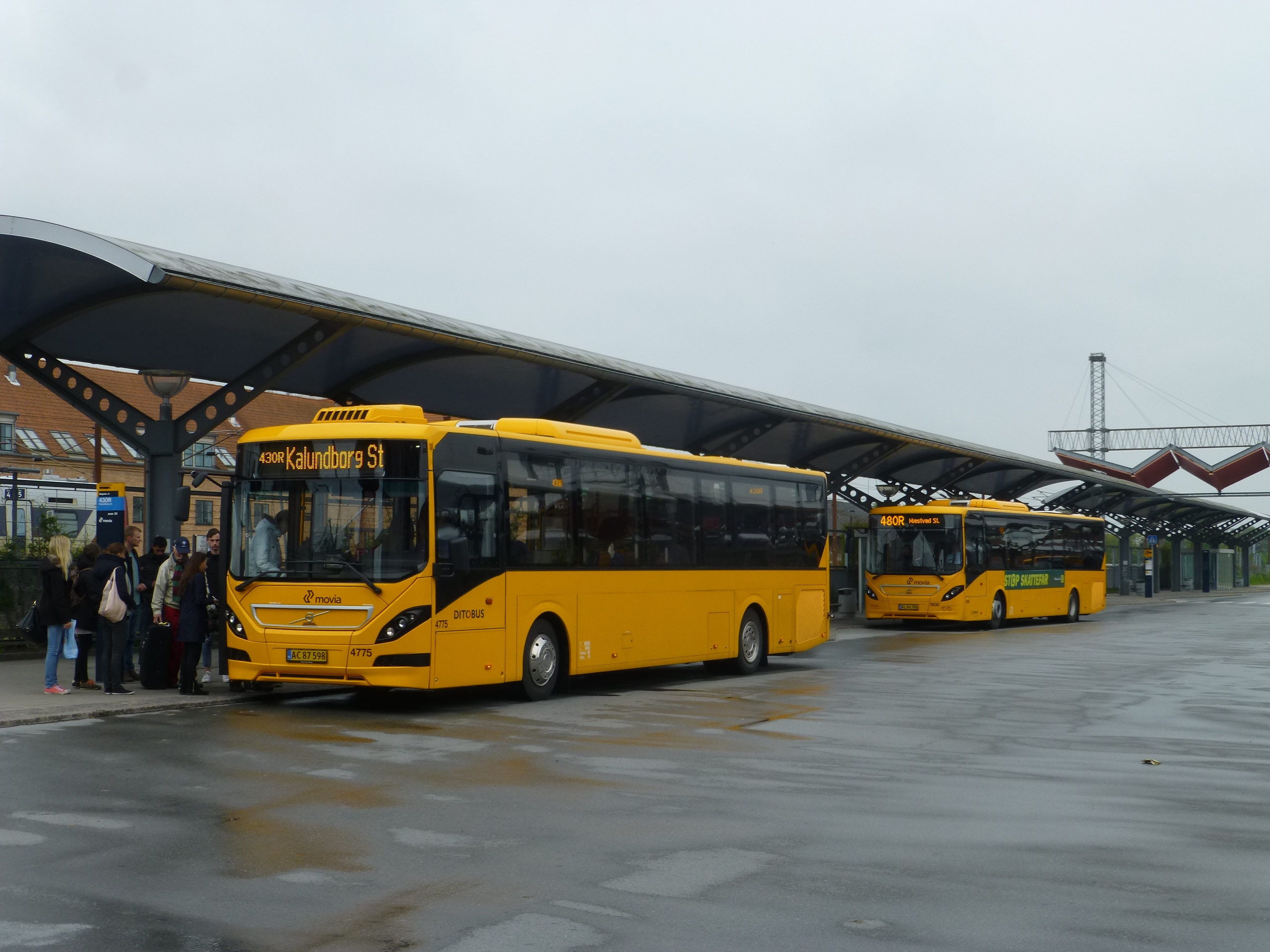 Movia bus line 430R and 480R at Slagelse Station in Denmark.